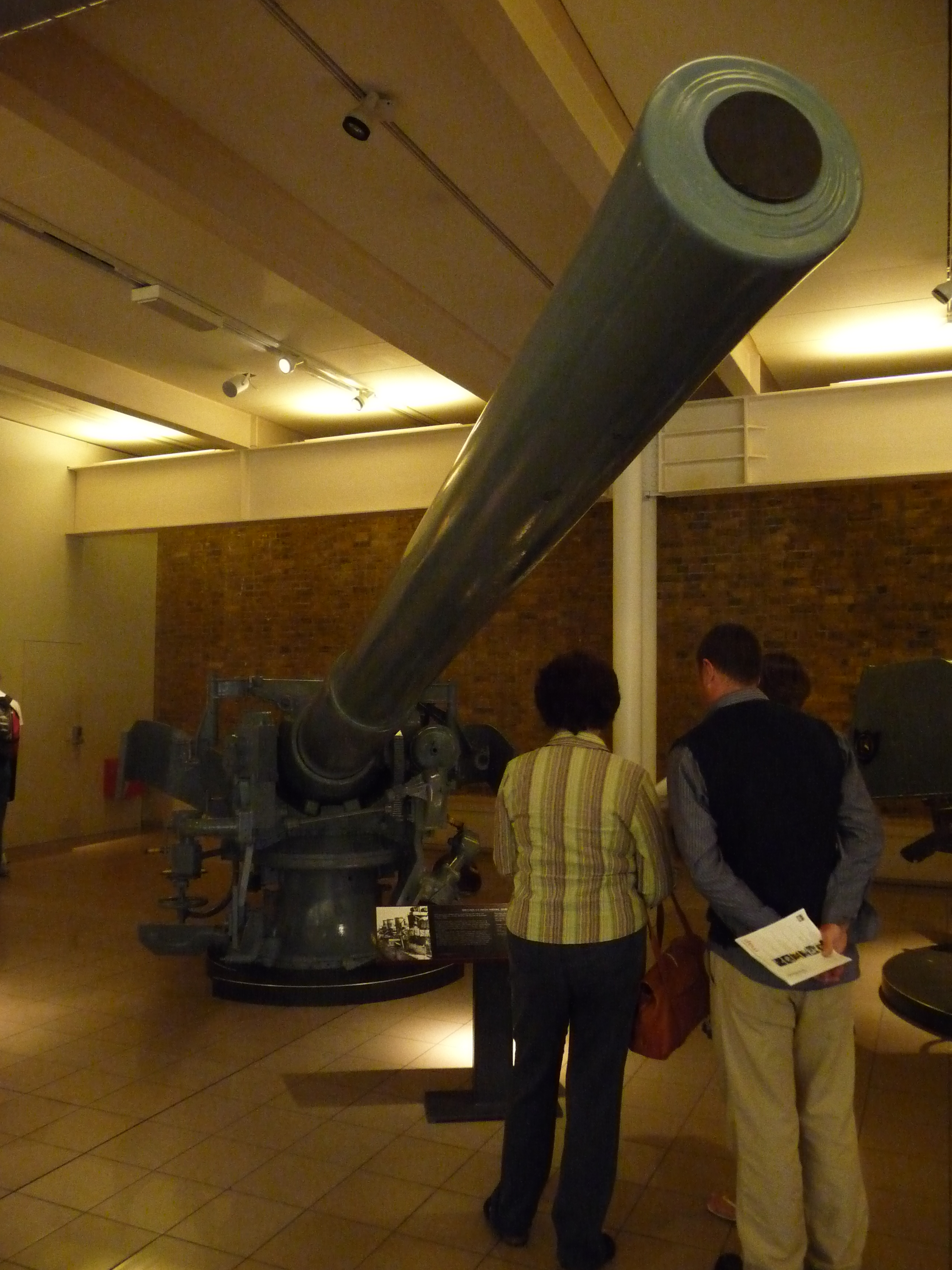 Muzzle view of British BL 5.5 inch naval gun from HMS Chester, at the Imperial War Museum, London. See File:BL5.5inch-50cal-MkI-NavalGun-IWM-August2006.jpg for breech view of the same gun.